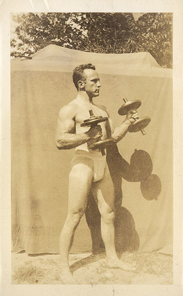 Vintage jockstrap image, circa 1940.